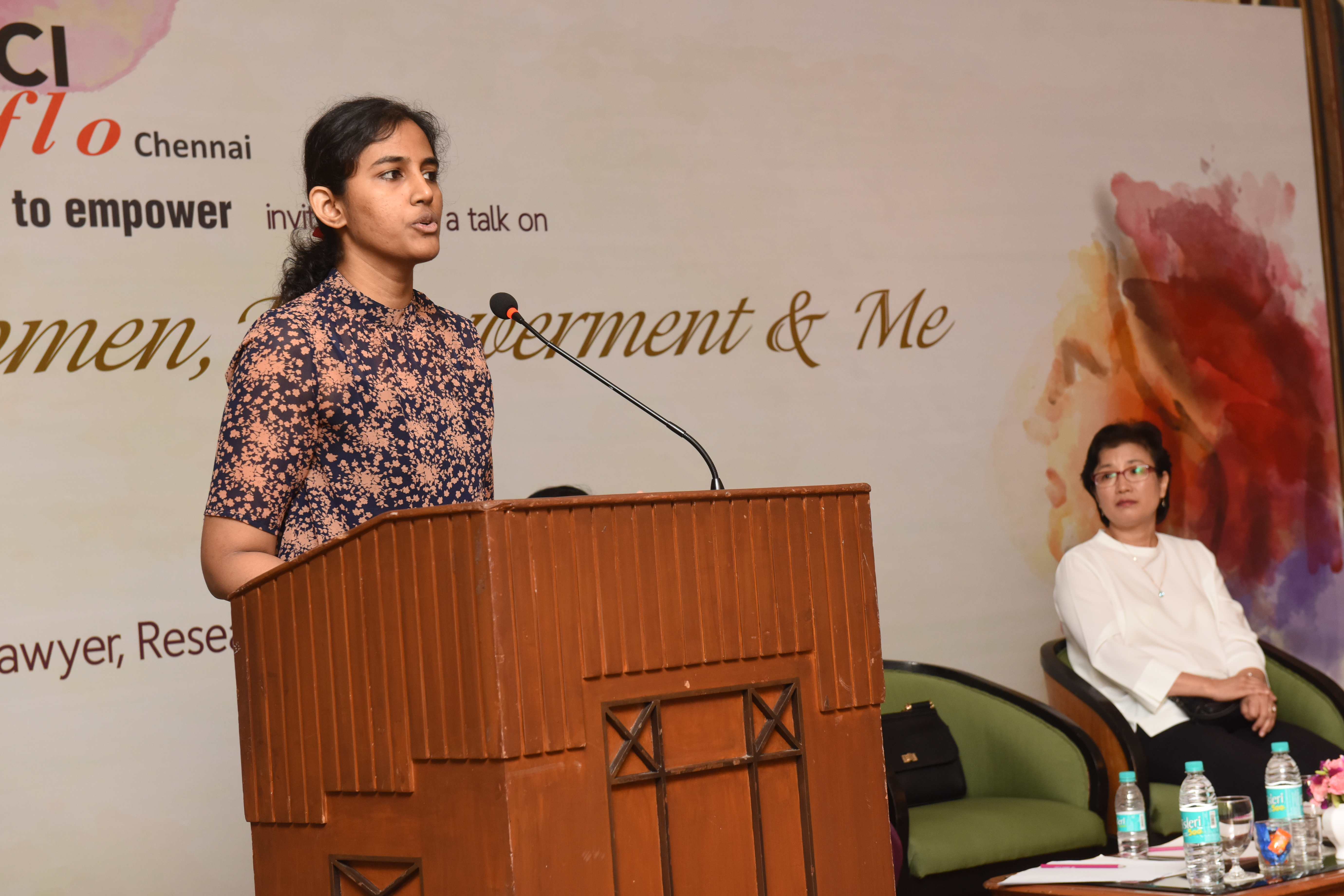 Kirthi Jayakumar at FICCI FLO, 2016